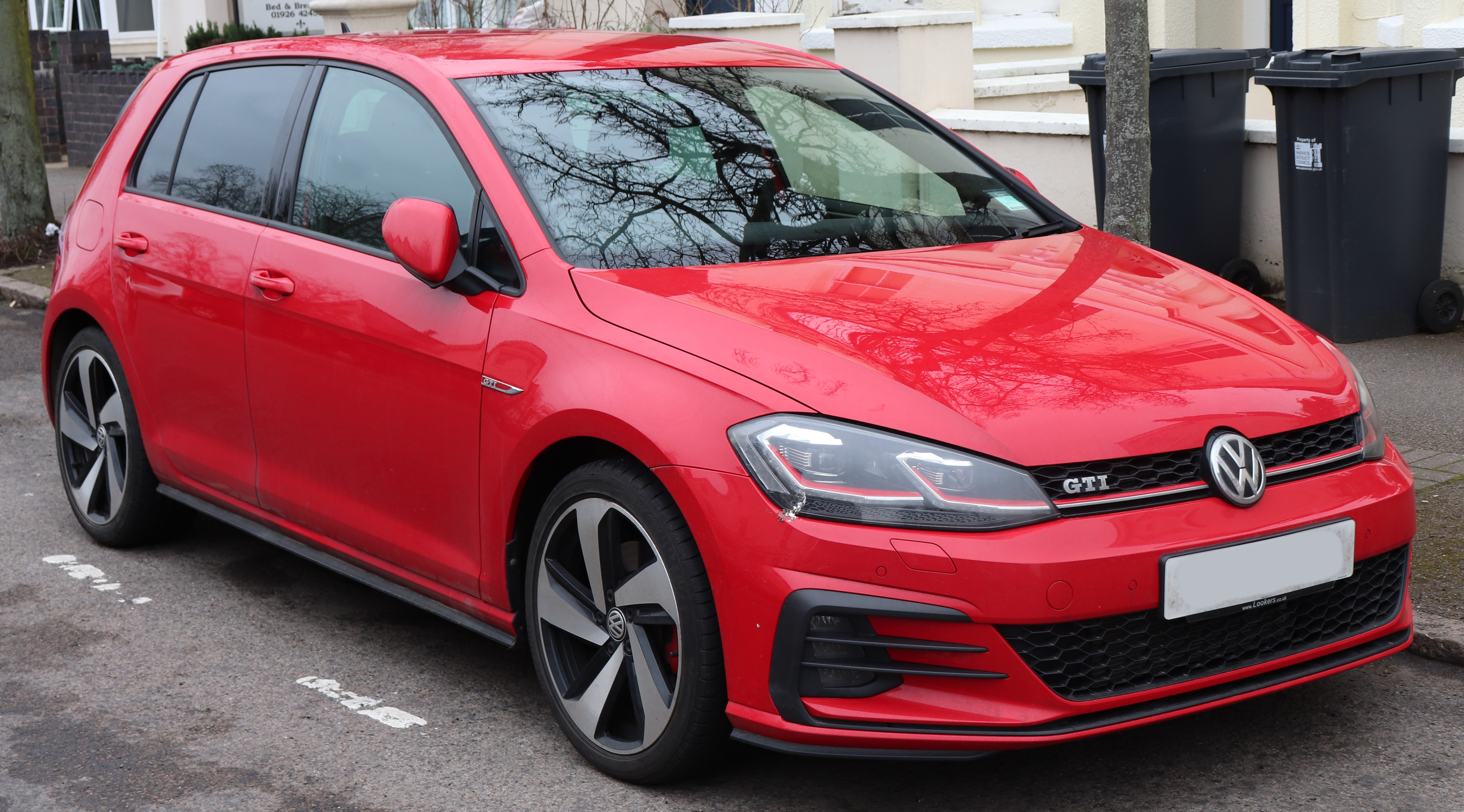 2017 Volkswagen Golf GTi TSi 2.0 Front Taken in Leamington Spa